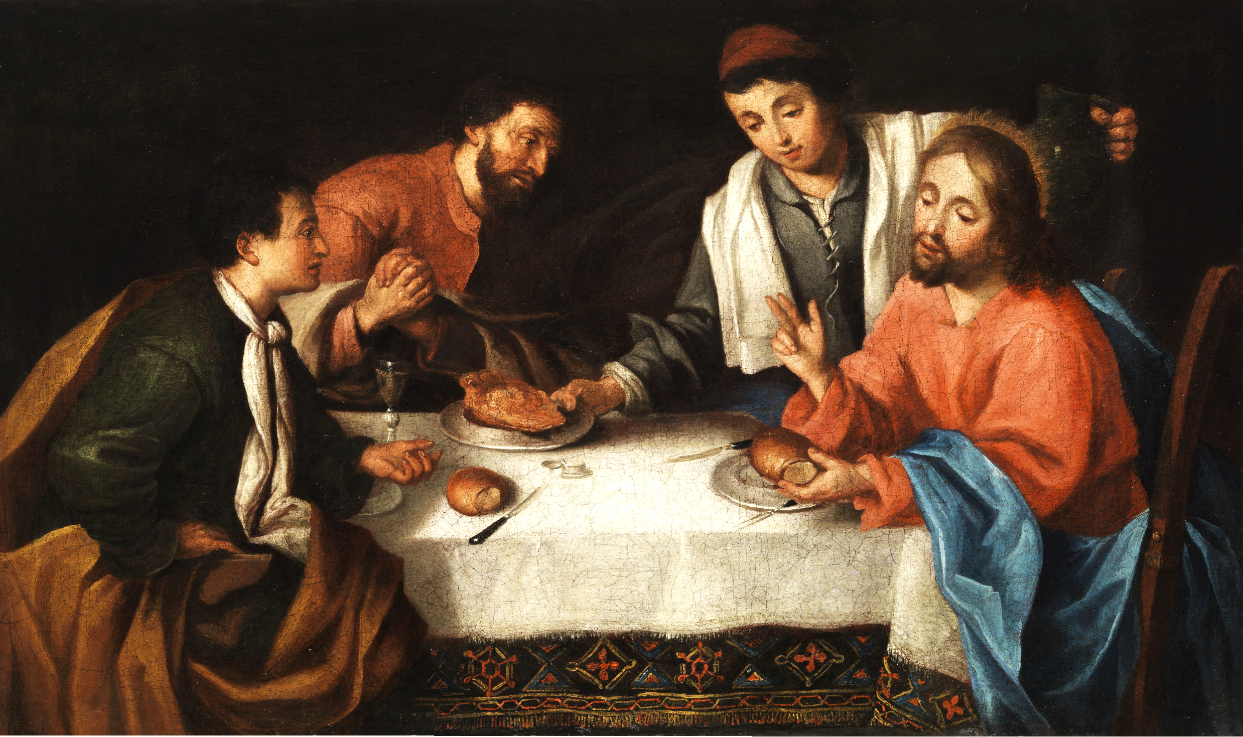 Emmaus, Christ breaking bread. Oil on canvas. 48 x 79 cm.